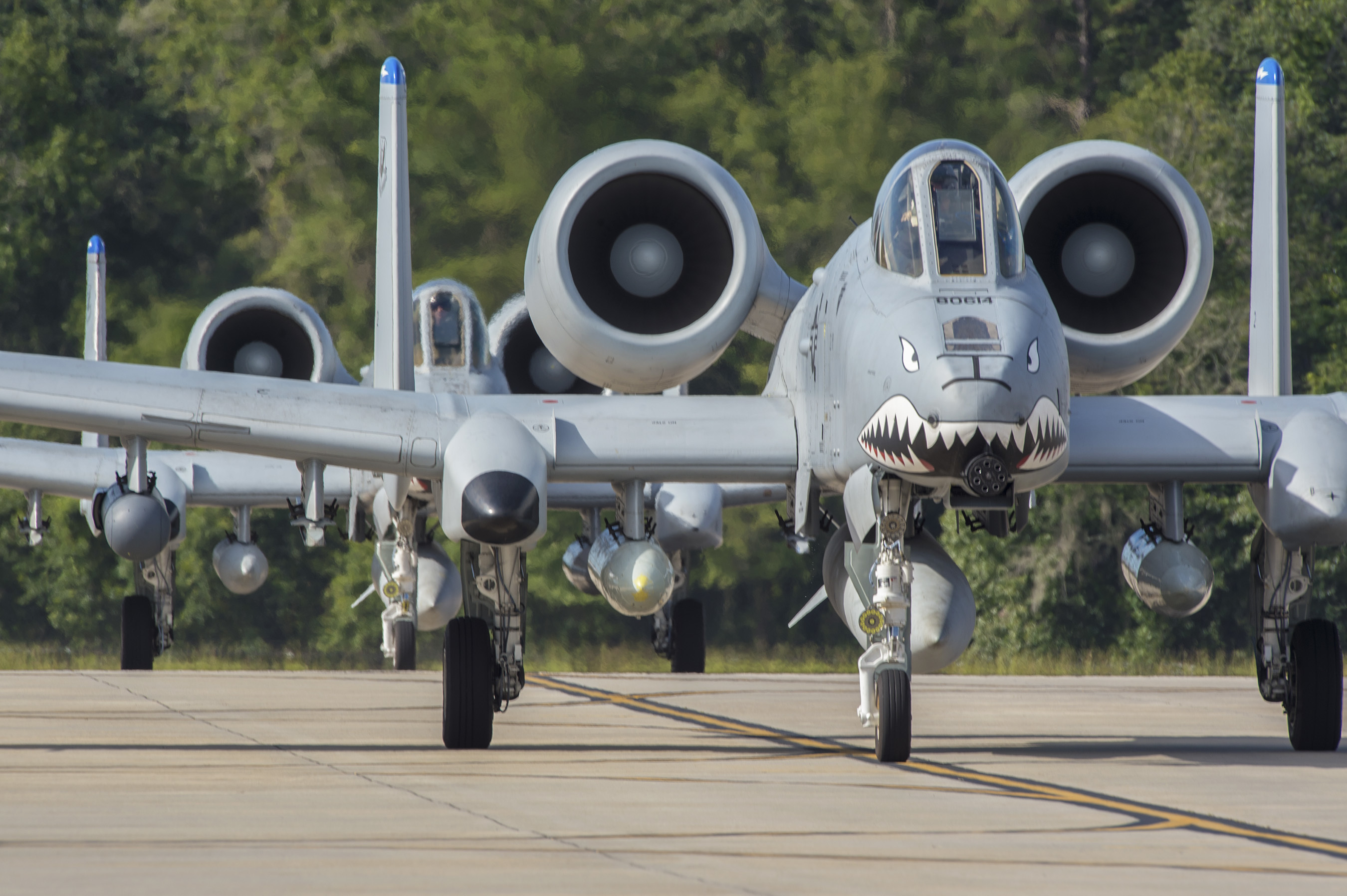 U.S. Air Force A-10 Thunderbolt II aircraft assigned to the 74th Fighter Squadron’s taxi July 11, 2017, at Moody Air Force Base, Georgia. More than 300 Airmen deployed to Southwest Asia to aid the 74th Fighter Squadron’s A-10 mission in support of Operation Inherent Resolve.